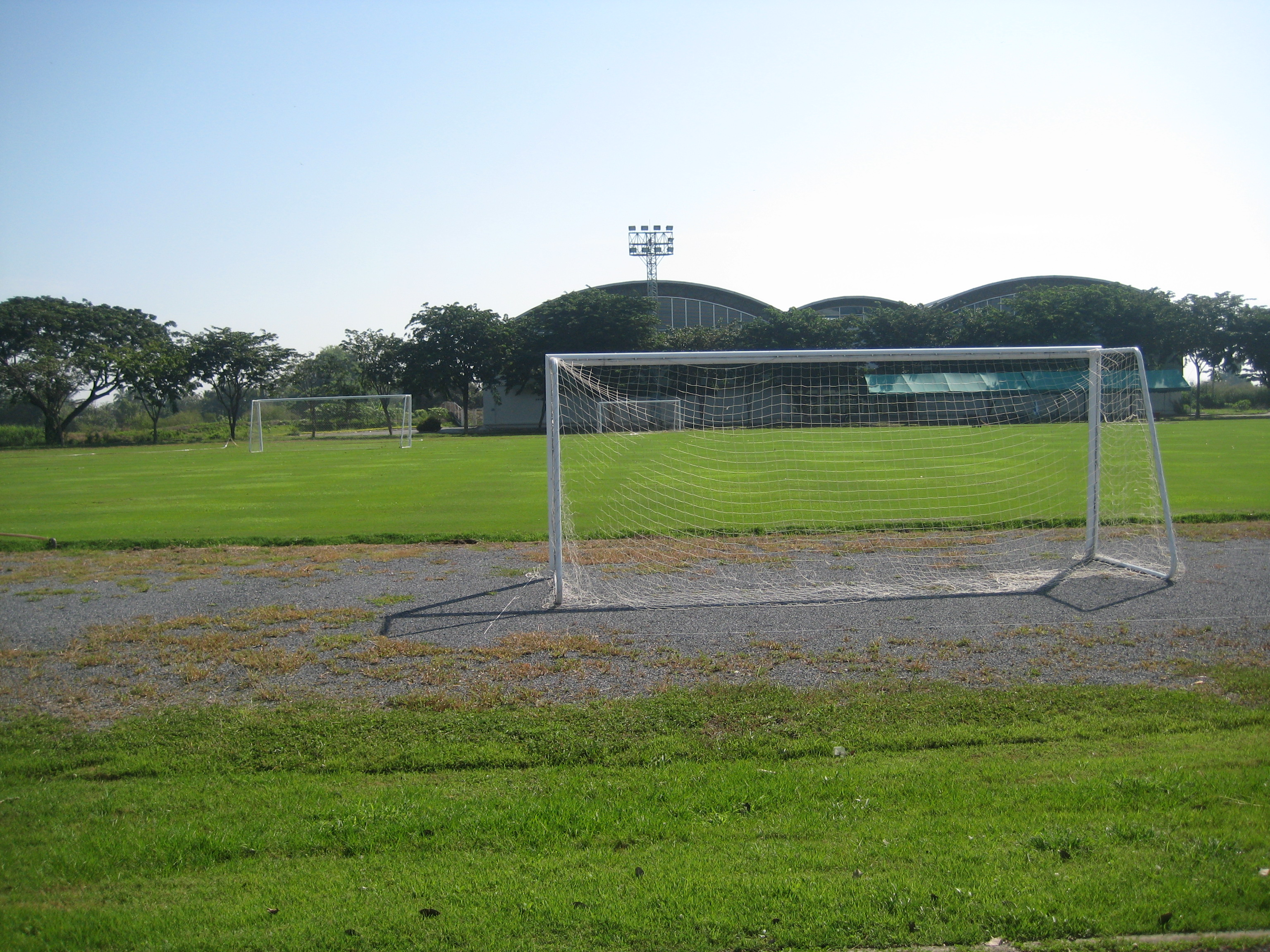 Soccer stadium